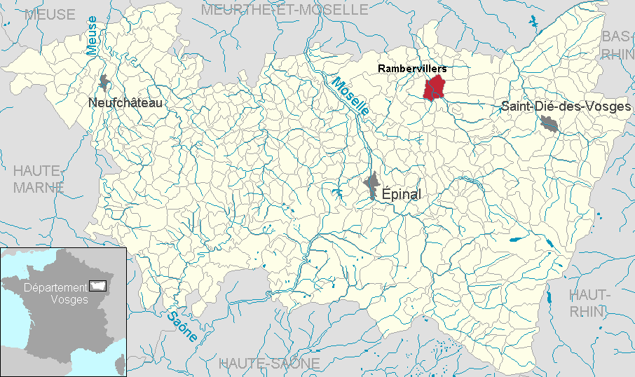 Rambervillers in the department of Vosges, Lorraine, France